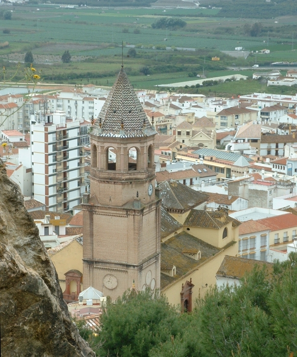 Church of San Juan Bautista, Vélez-Málaga, Spain, with a view over the town.